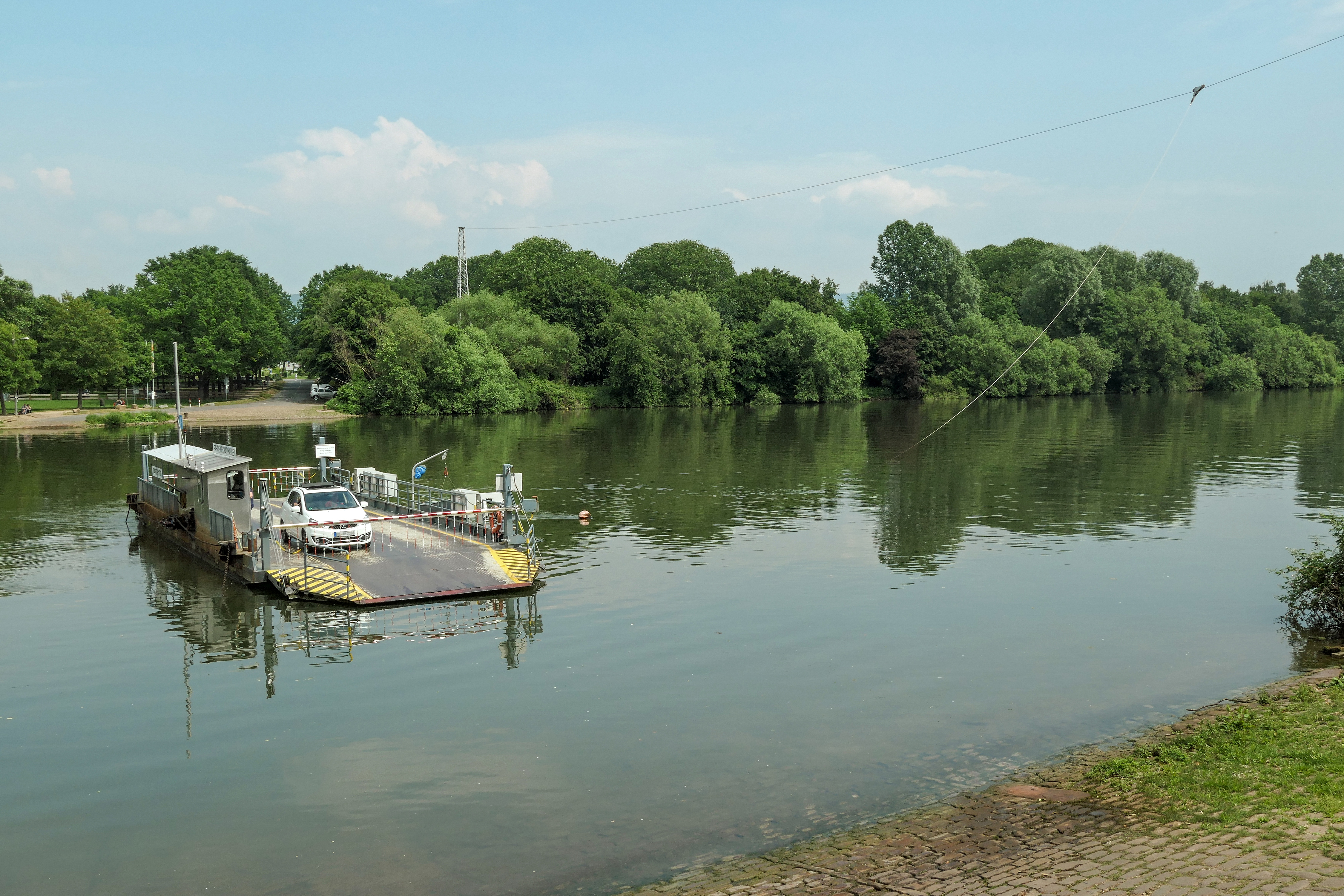 Neckar ferry between Edingen-Neckarhausen and Ladenburg, arrival at Neckarhausen